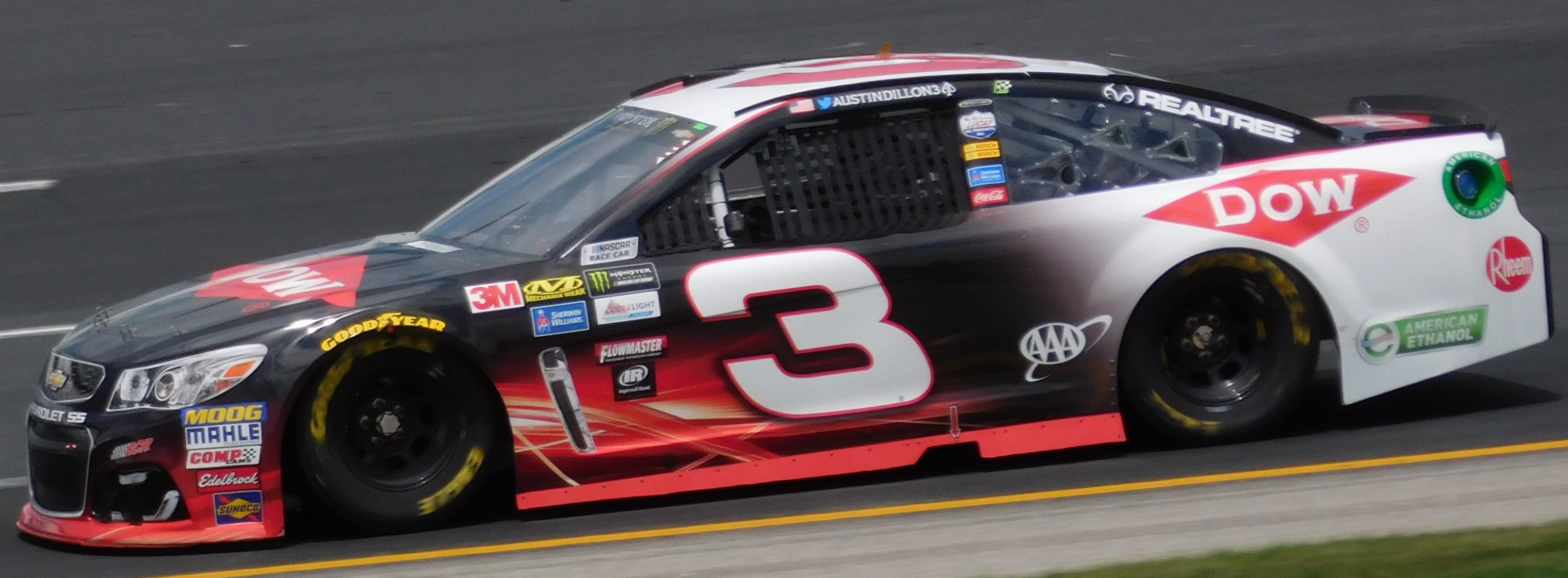 Austin Dillon's No. 3 Dow Chevrolet at New Hampshire Motor Speedway in 2017